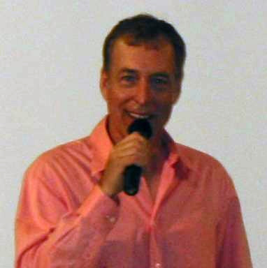 Eugene Jarvis.